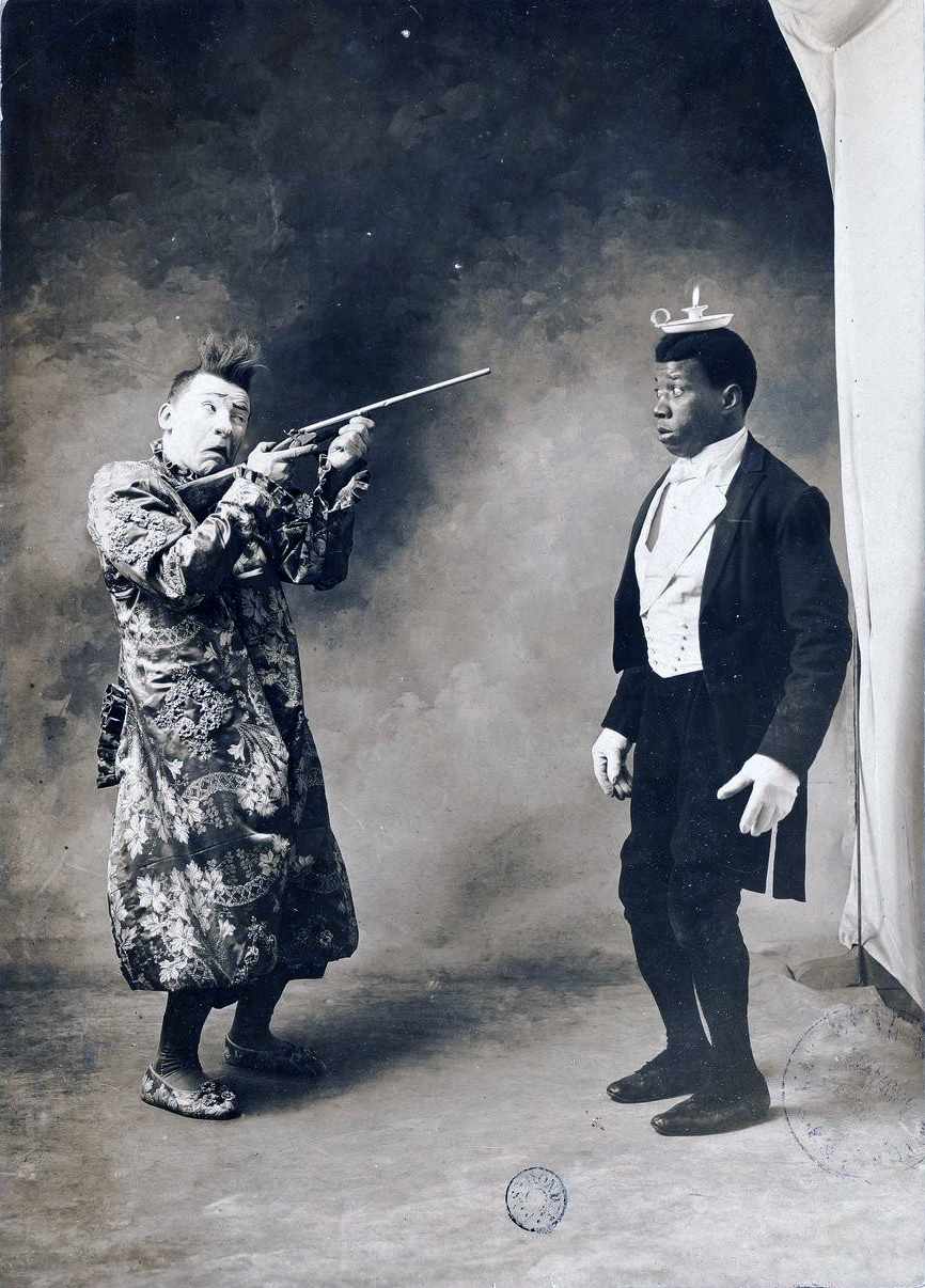 Photograph of French clowns Footit and Chocolat.